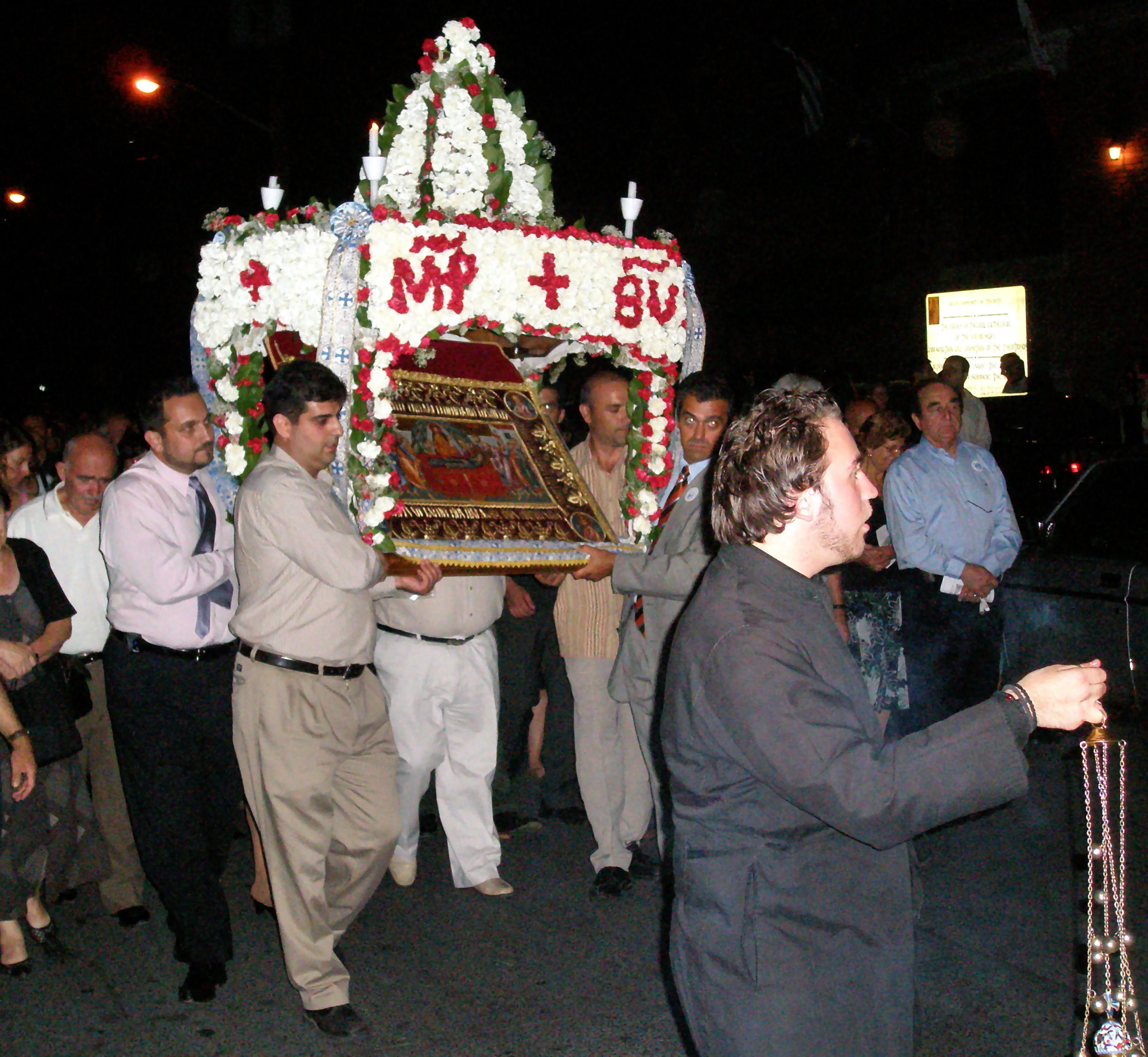 Procession of the Epitaphios on the Feast of the Dormition of the Theotokos. Annunciation of the Virgin Mary Greek Orthodox Cathedral, Toronto, Ontario, Canada.